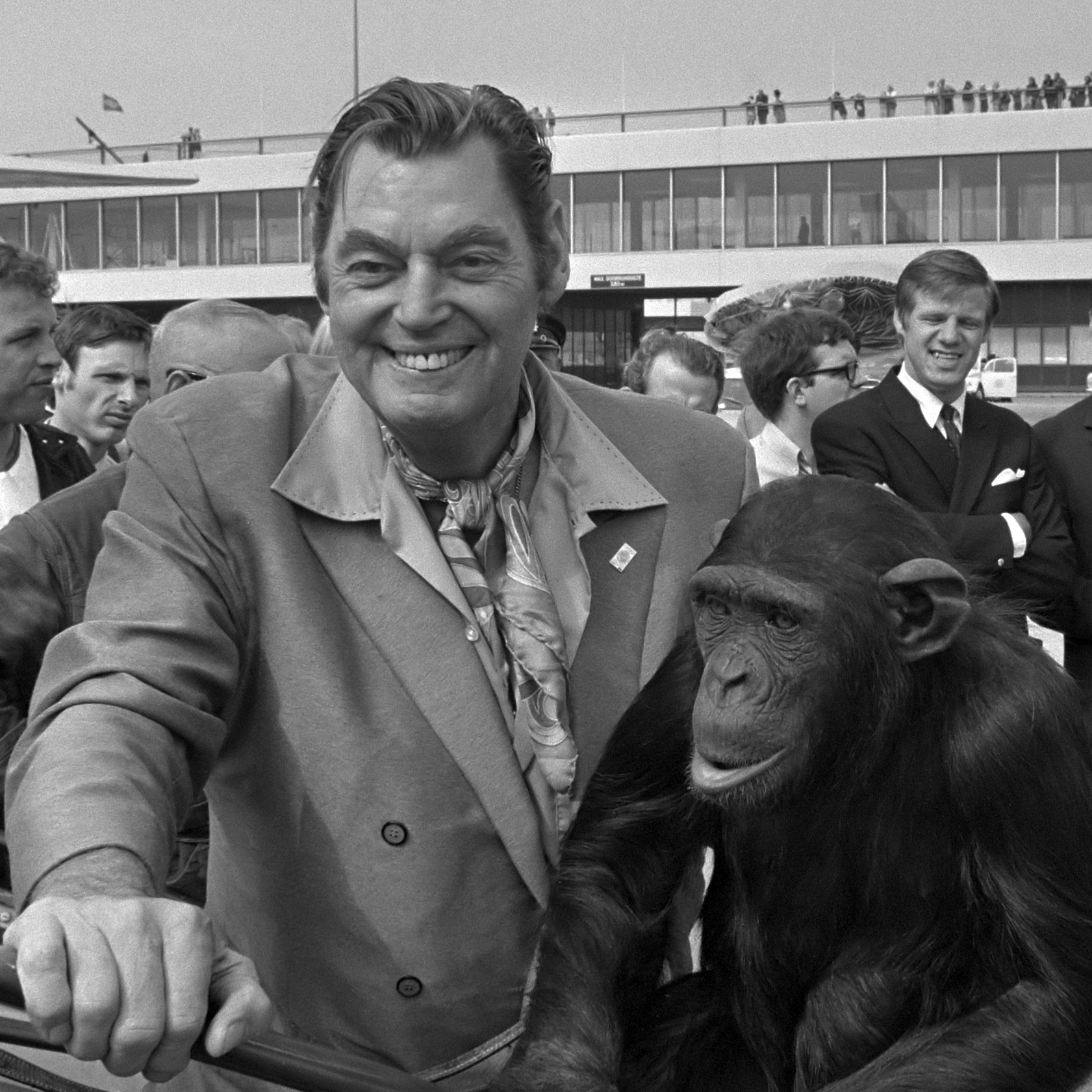 Acteurs Raymond Burr en ex-Tarzan Johnny Weismuller (USA) arriveren op Schiphol; Weismuller met aap 24 juni 1970